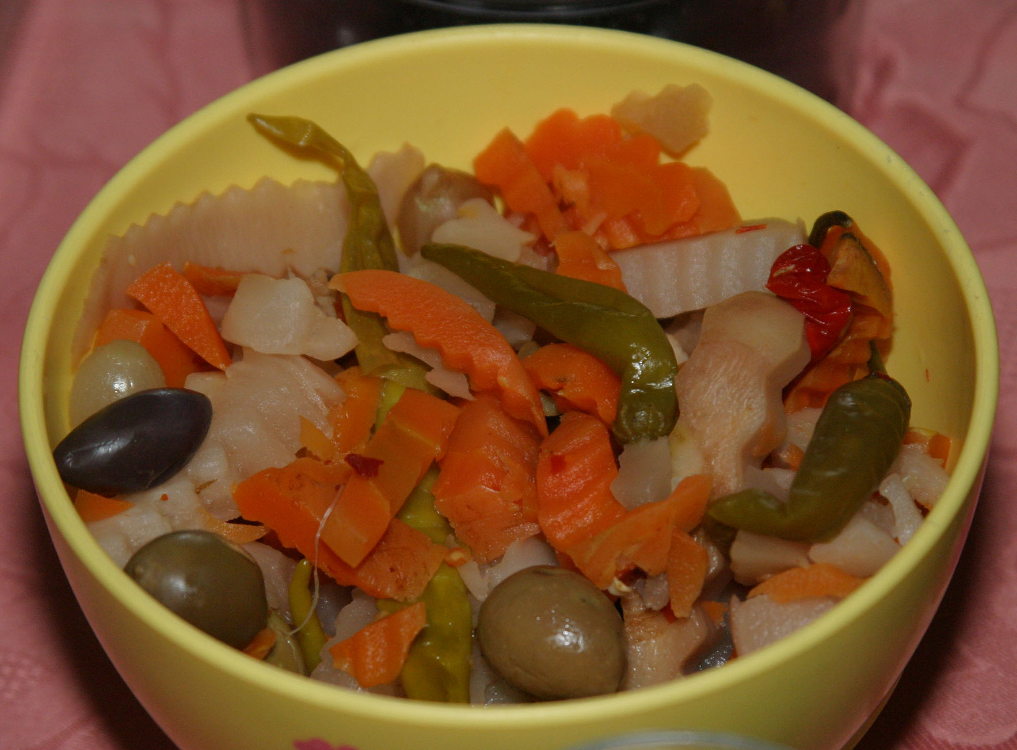 Torshi - egyptian pickles